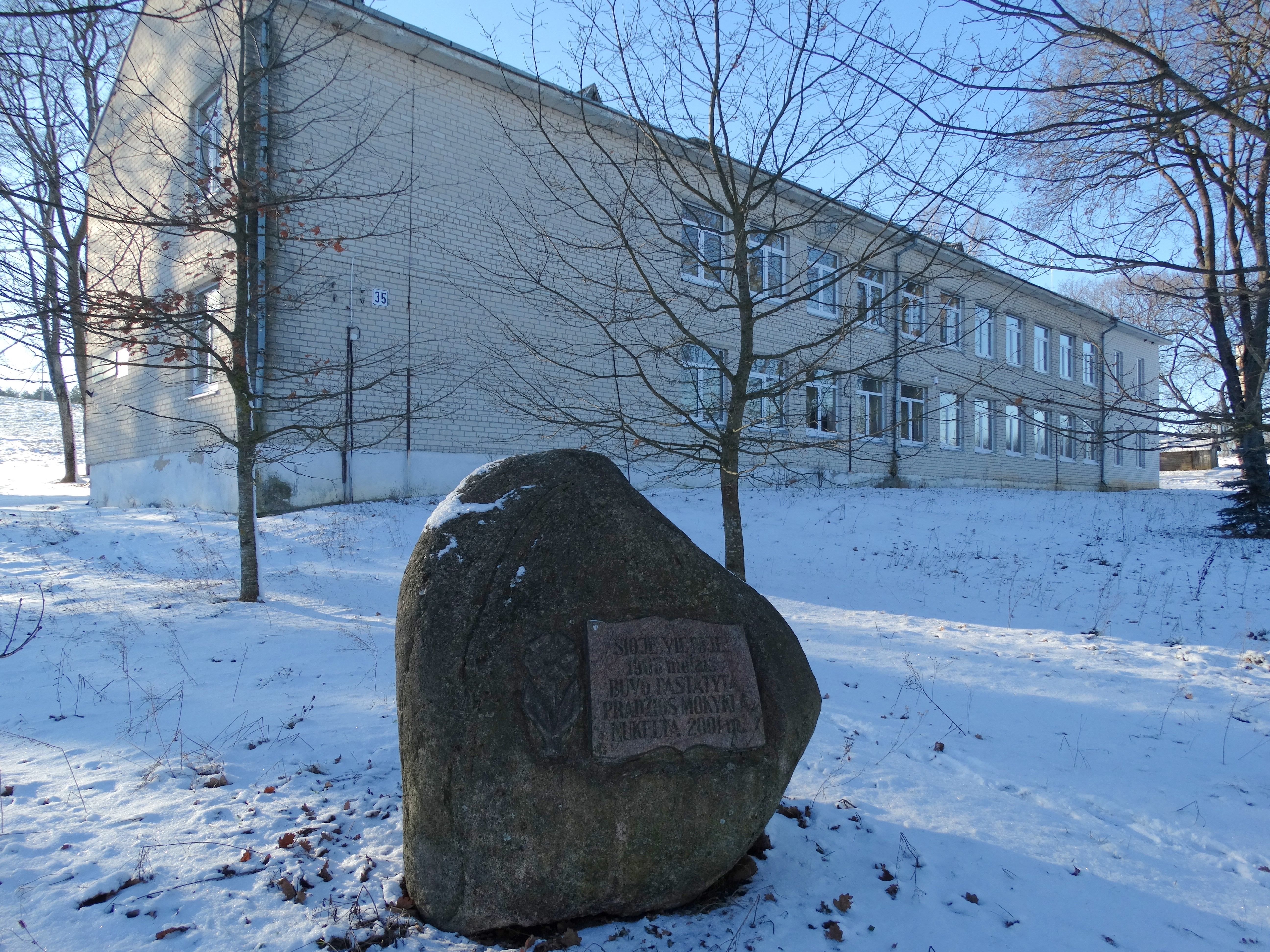 School, Mūro Strėvininkai, Kaišiadorys district, Lithuania